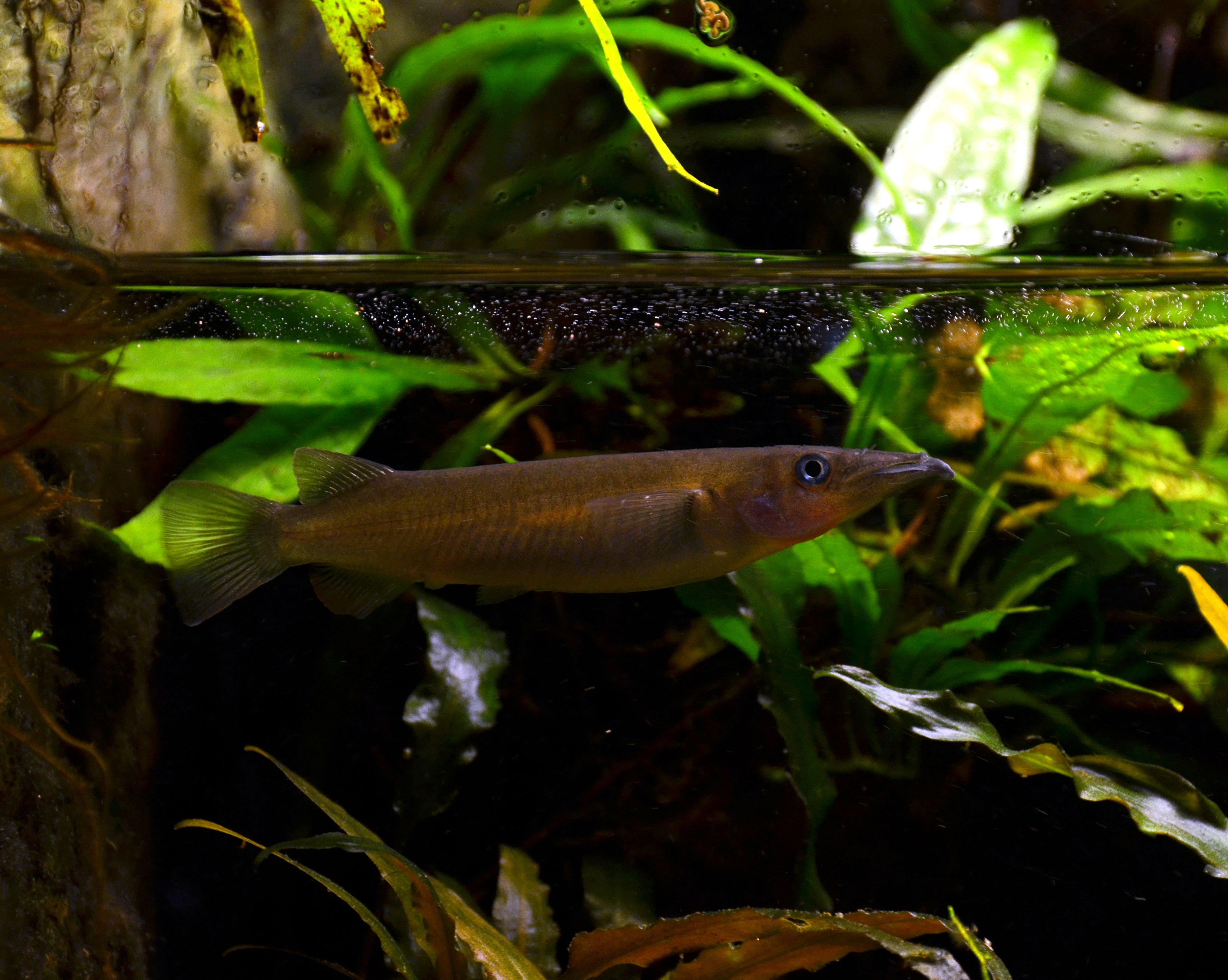 Celebes halfbeak (Nomorhamphus liemi) in Cologne zoo.